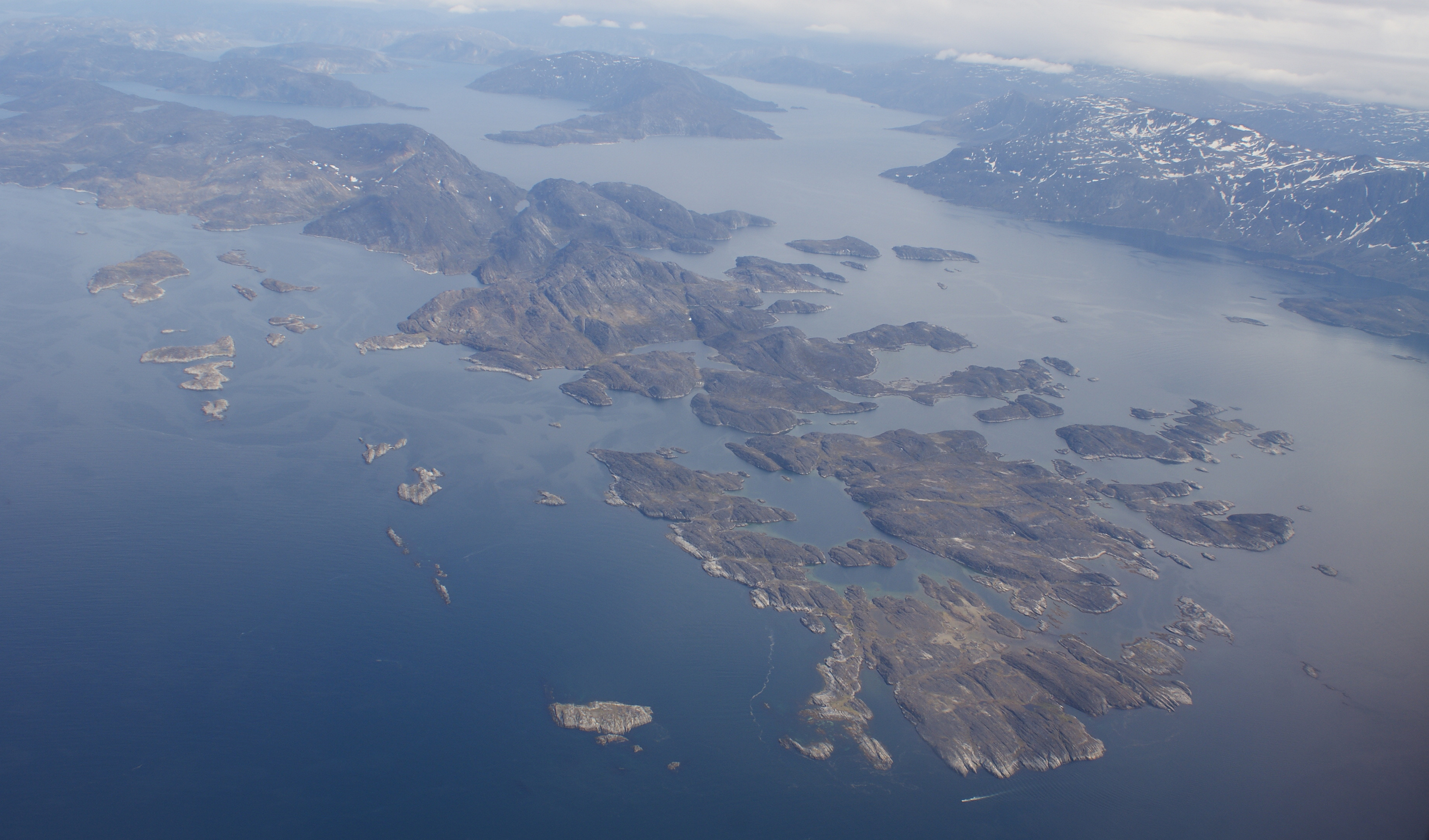 Aerial view of Ikertooq Fjord in western Greenland. Photographed from the Air Greenland de Havilland Canada Dash-7 "Sululik" during the Sisimiut-Nuuk flight.